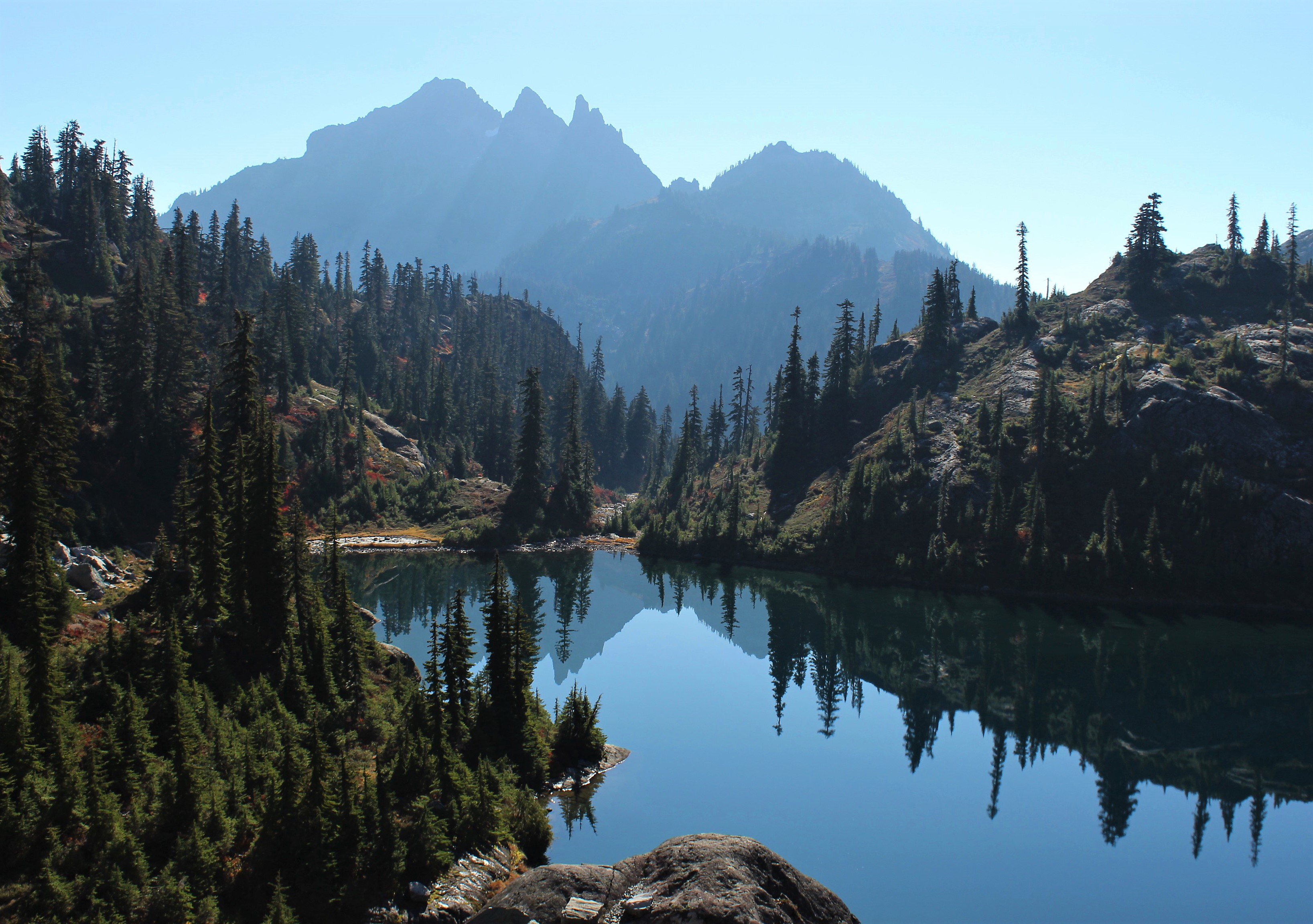 Glacier Lake and Three Queens, Alpine Lakes Wilderness on the Okanogan-Wenatchee National Forest Photo by Matthew Tharp